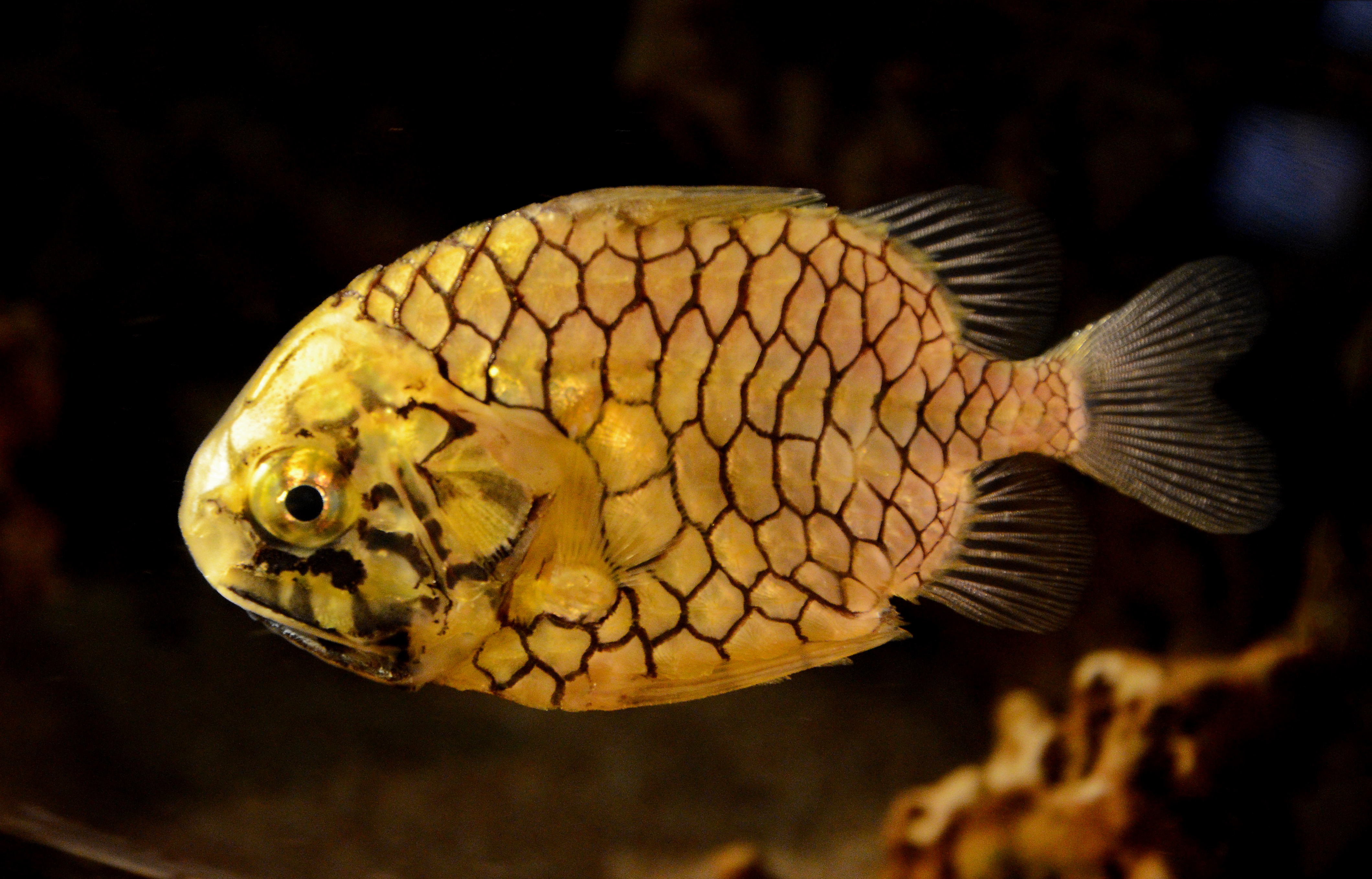 Japanese pineapplefish. Also: Pineconefish